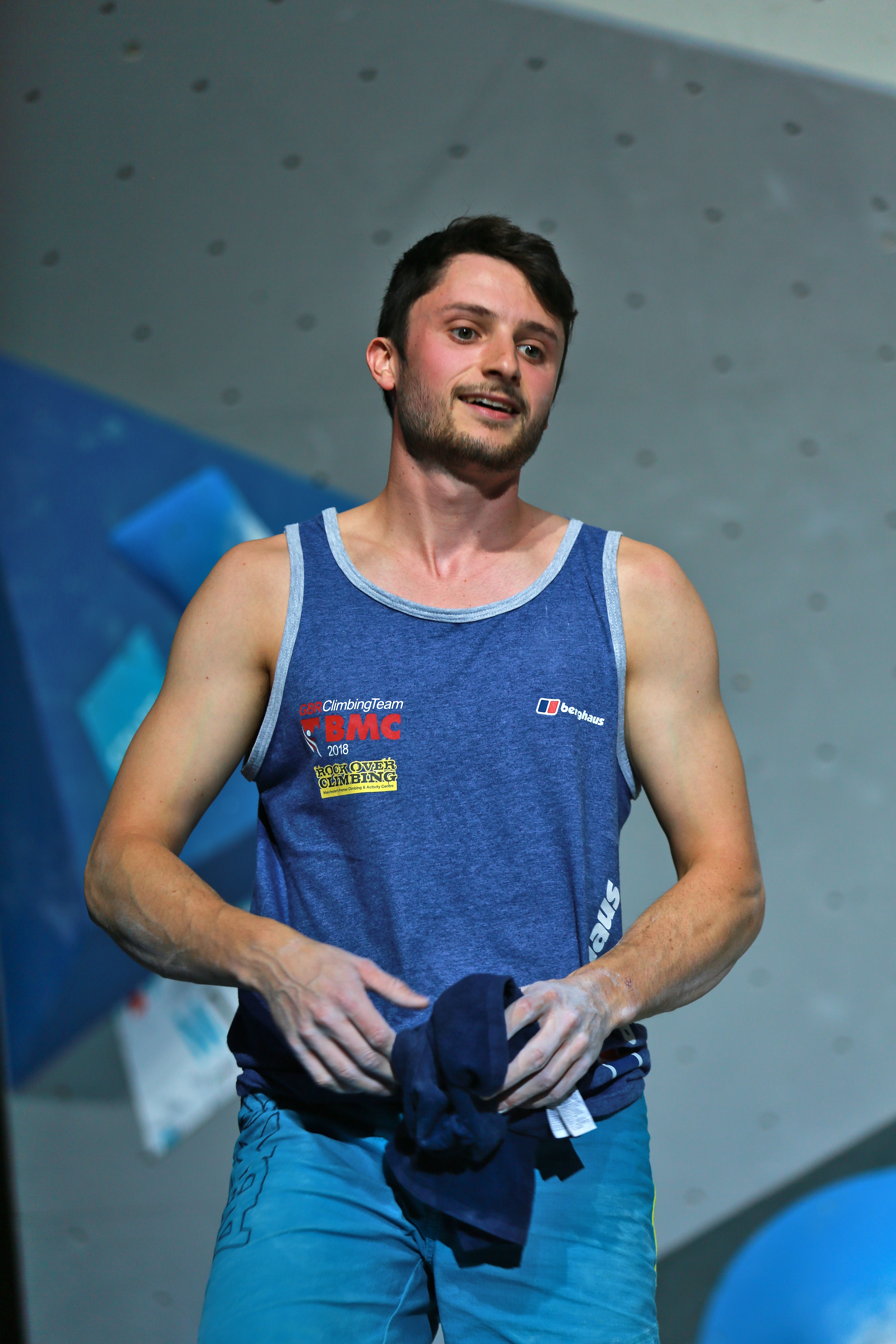 Climbing World Championships 2018 Boulder Final Phillips